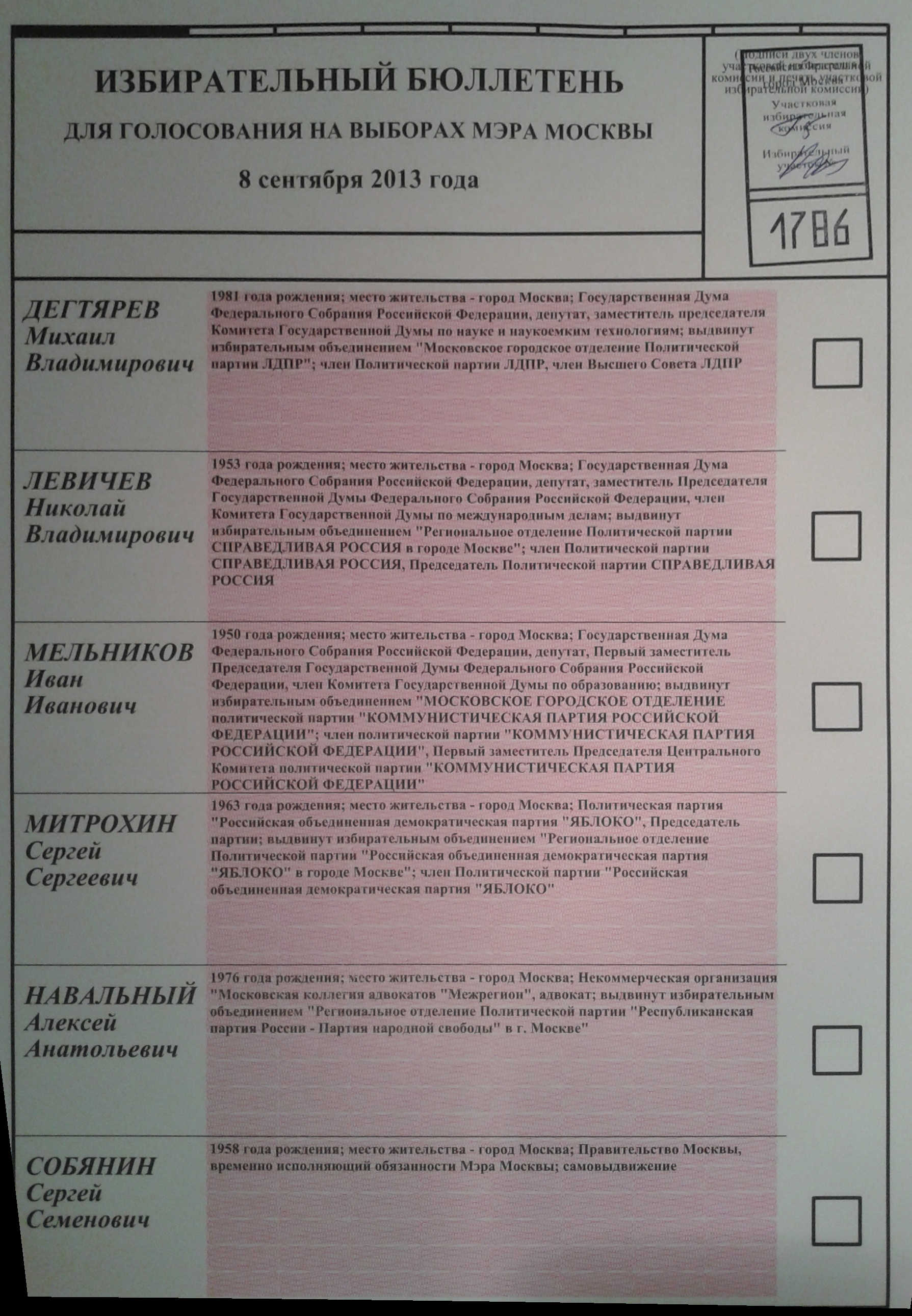 elections in Moscow 08 09 2013